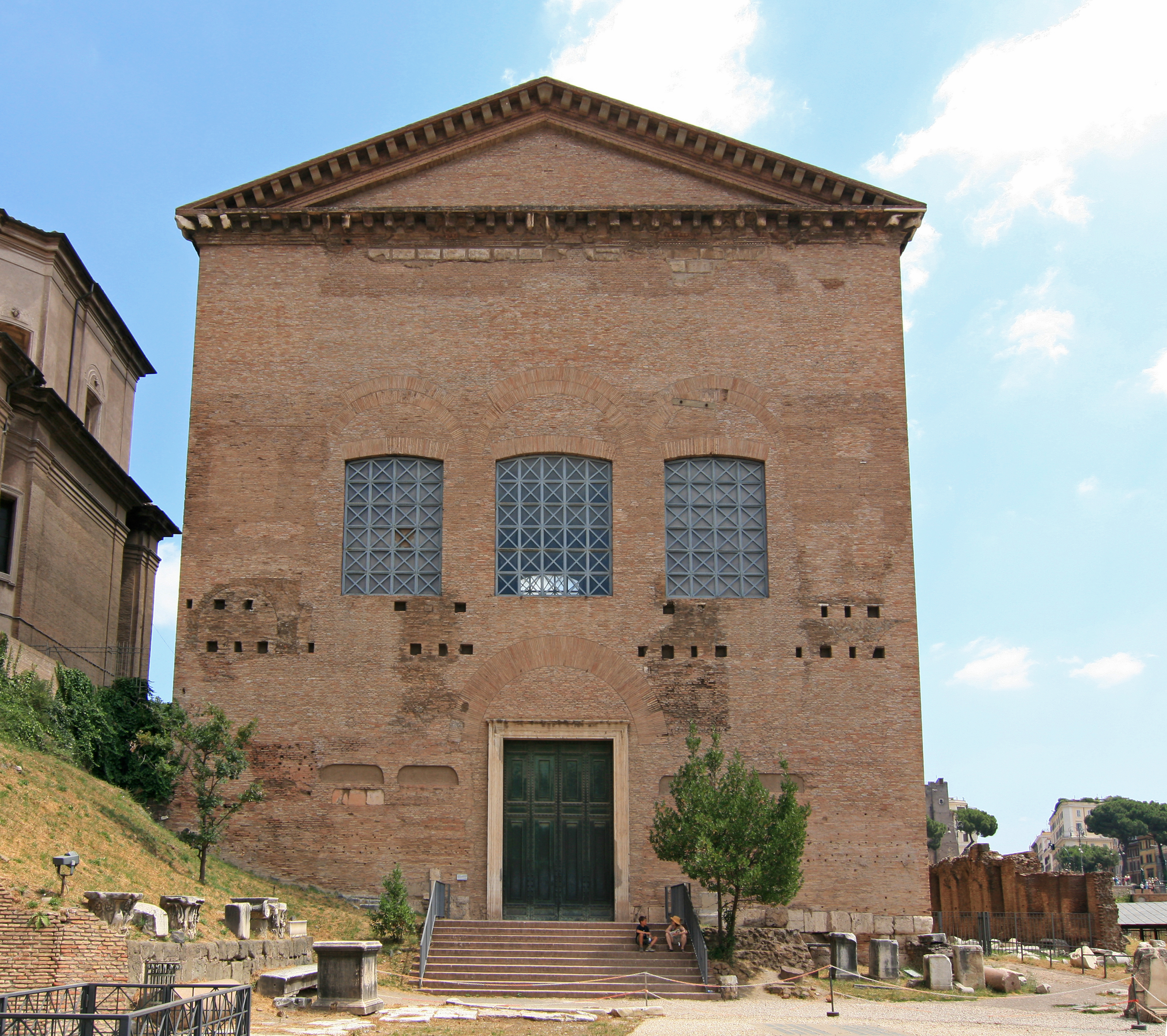 Curia Iulia, Forum Romanum.